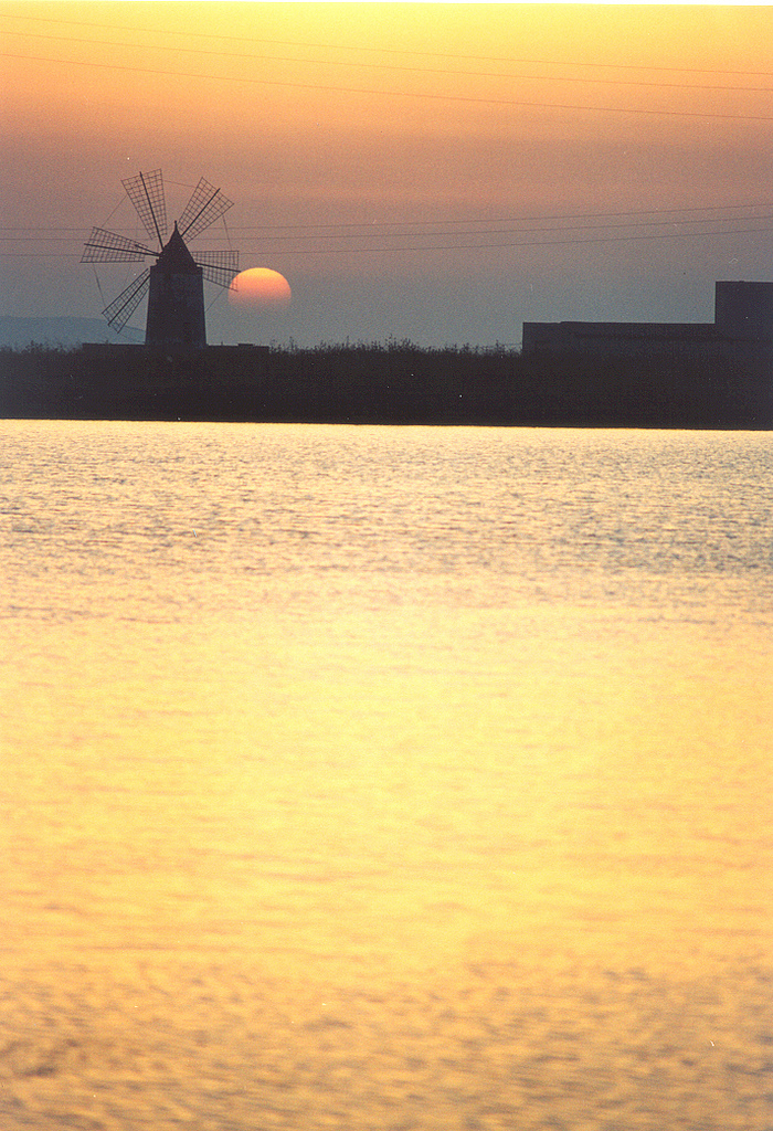 Mill in Trapani, Sicily